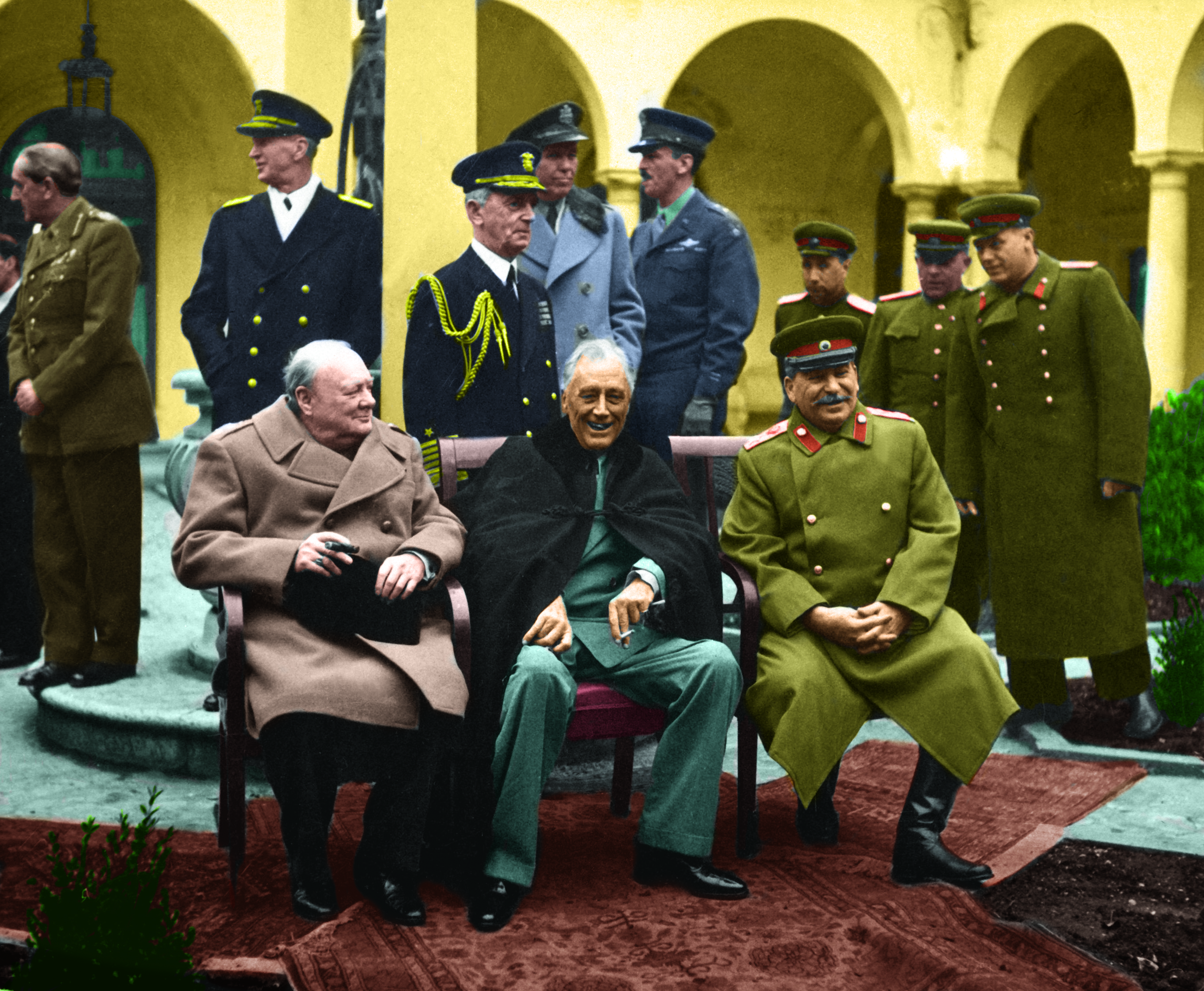 Conference of the Big Three at Yalta makes final plans for the defeat of Germany. Here the "Big Three" sit on the patio together, Prime Minister Winston S. Churchill, President Franklin D. Roosevelt, and Premier Josef Stalin. February 1945. (Army)Exact Date Shot UnknownNARA FILE #: 111-SC-260486WAR&CONFLICT BOOK #: 750